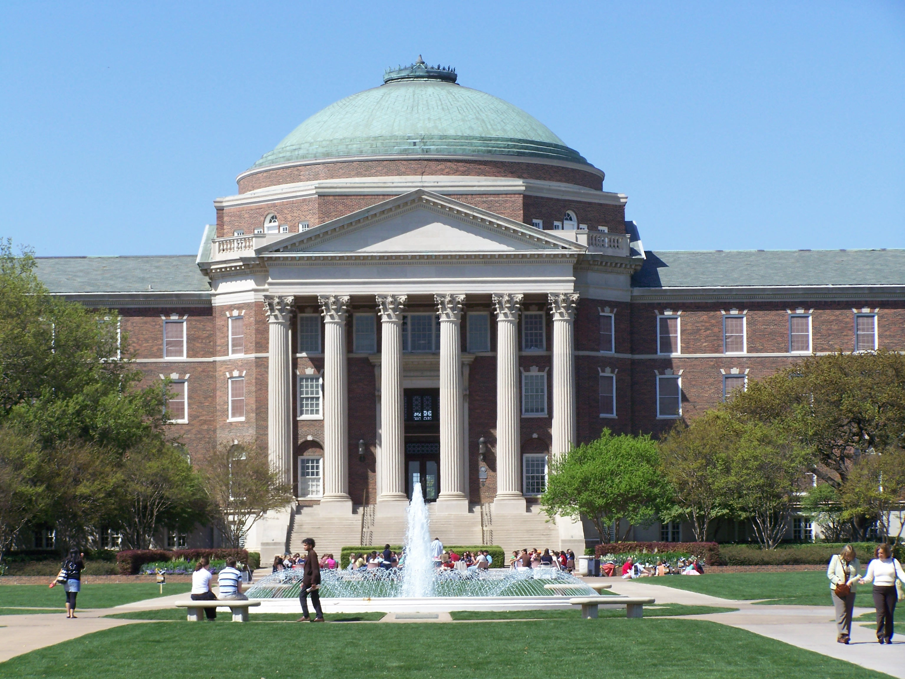 Dallas Hall